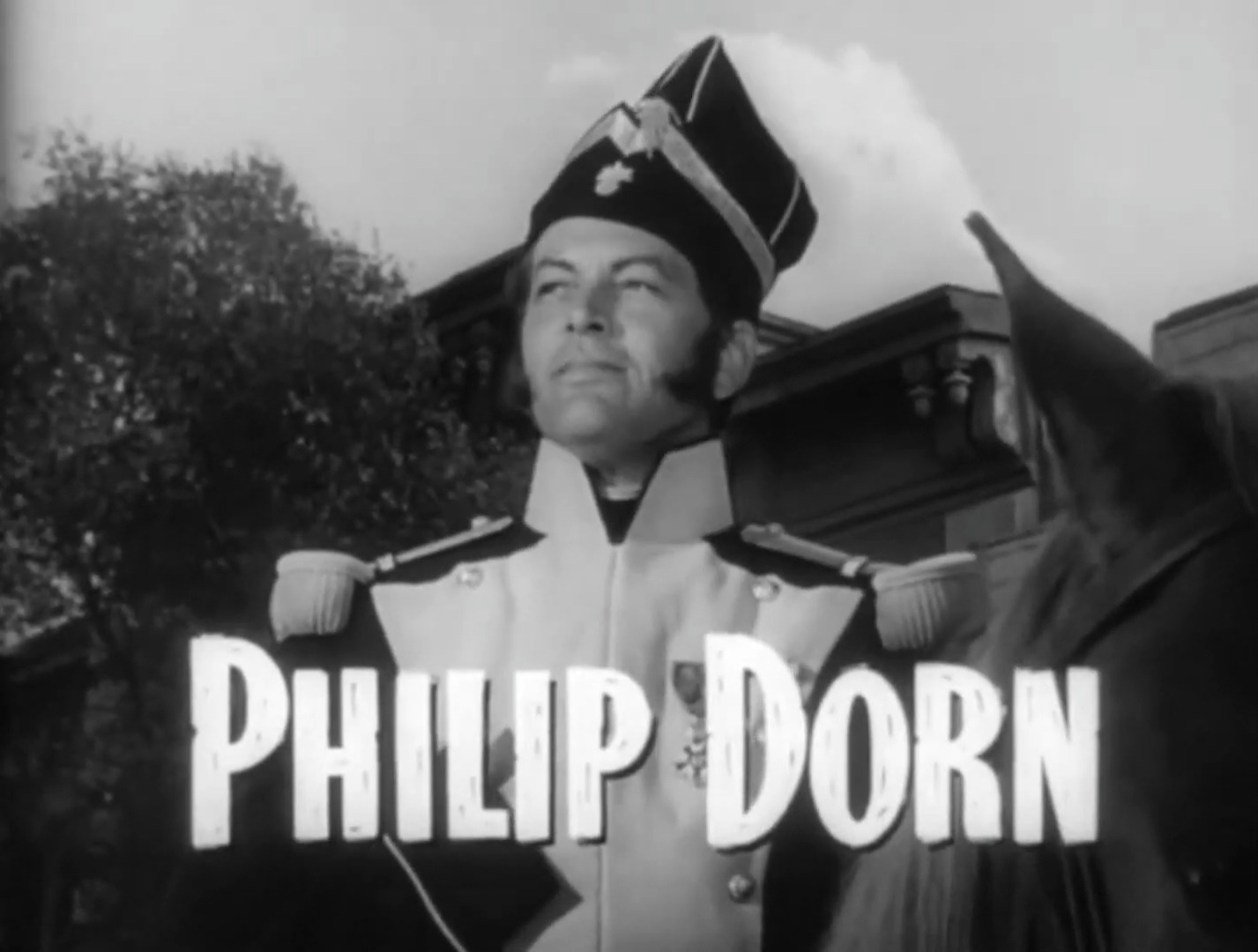 Cropped screenshot from the Trailer The Fighting Kentuckian (1949), Philip Dorn